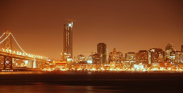 Waterfront, San Francisco, USA, including One Rincon Hill and Bay Bridge